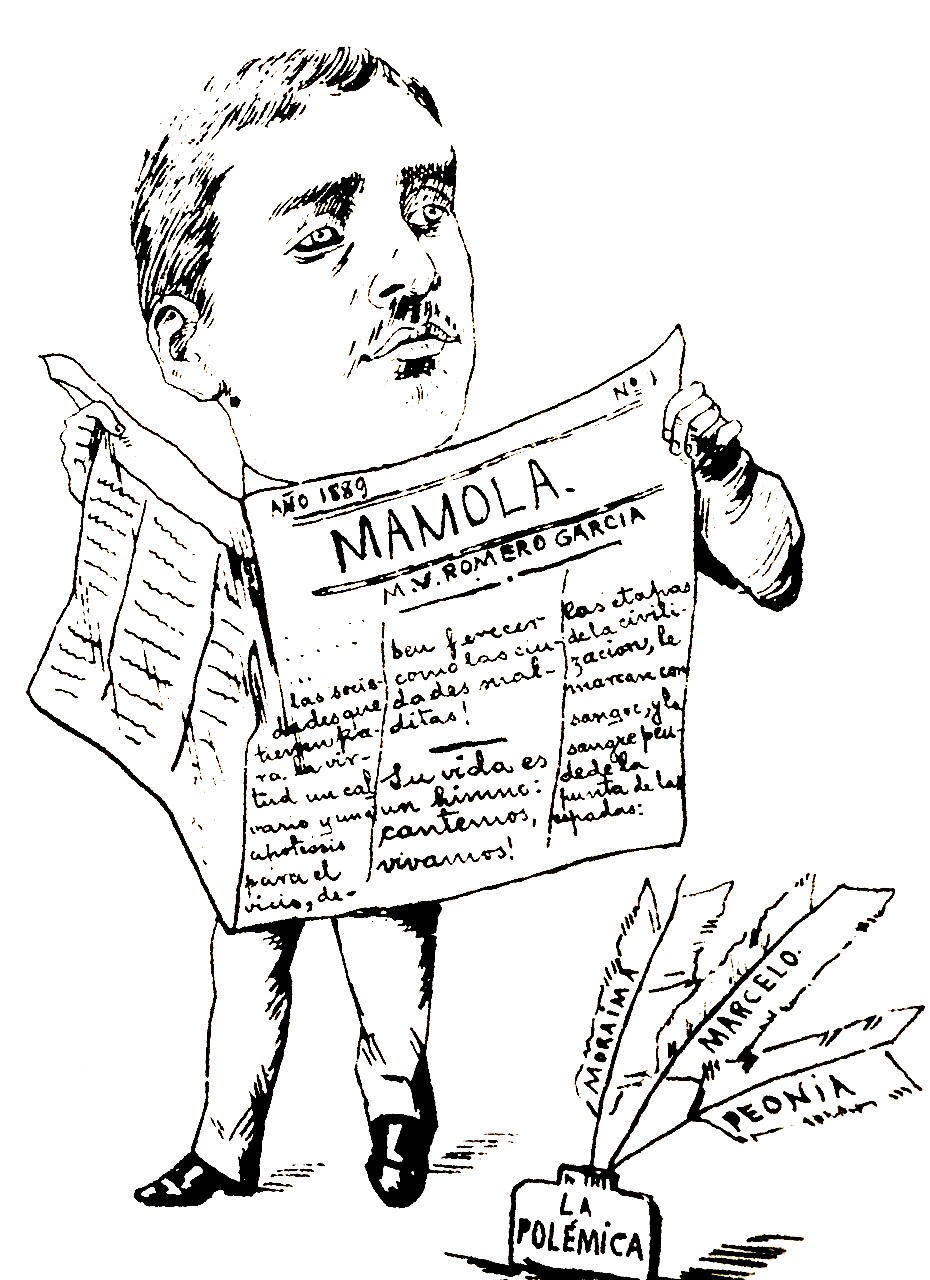 Caricatura del escritor y político Manuel Vicente Romero García (1861-1917), parte del archivo de la Biblioteca Nacional de Venezuela.